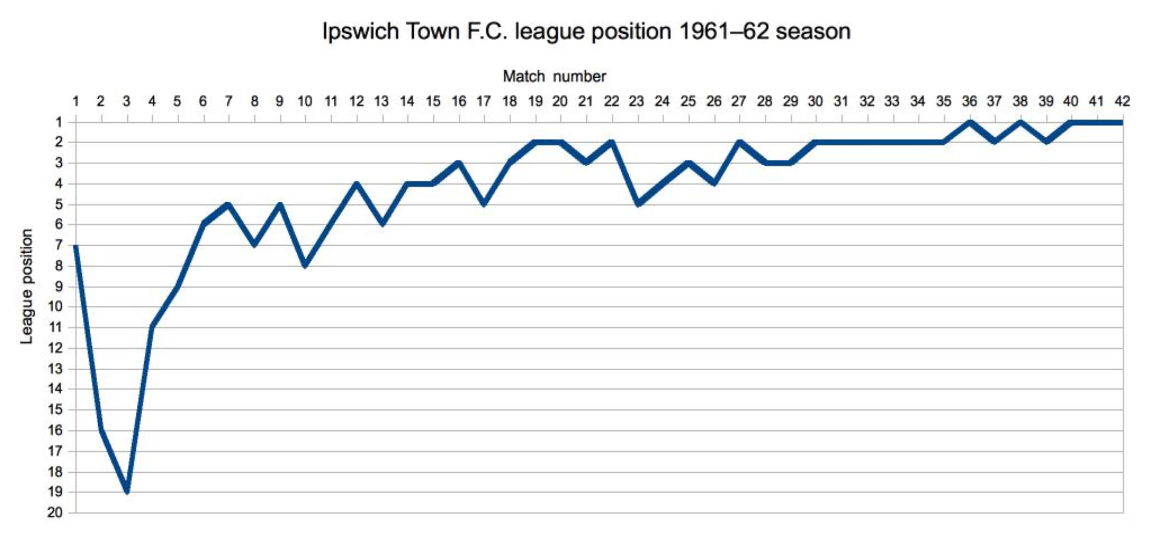 A graph of the league position of Ipswich Town F.C. during the 1961/62 football season. Source